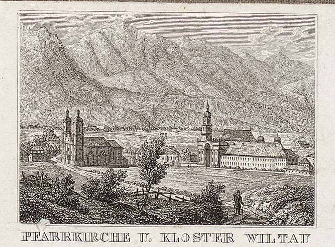 Map of Imperial and Royal Provincial Capital Innsbruck and surroundings: detail Wilten monastary and basilica